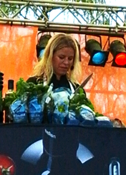 Chef Sara Begner to the left in the picture in the "chef duel" at "smaka på stockholm" in Kungsträdgården, Sockholm, Sweden 2015. Chef to the right is unknown.